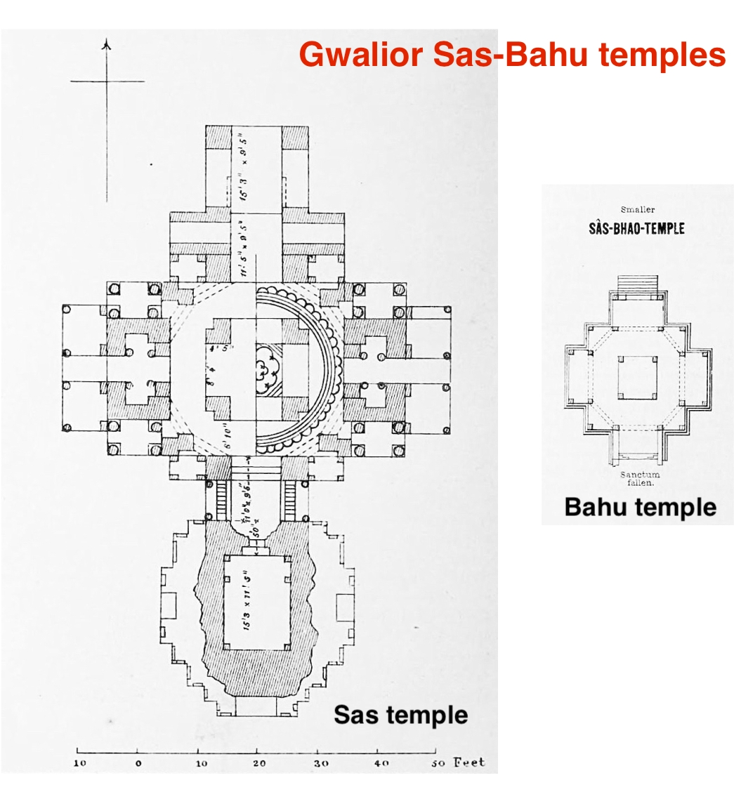 The Sasbahu temples in Gwalior fort are twin temples, one larger and other smaller, both dedicated to Vishnu. This is derivative work on Sasbahu greater temple plan Gwalior.jpg Sasbahu smaller temple plan Gwalior.jpg